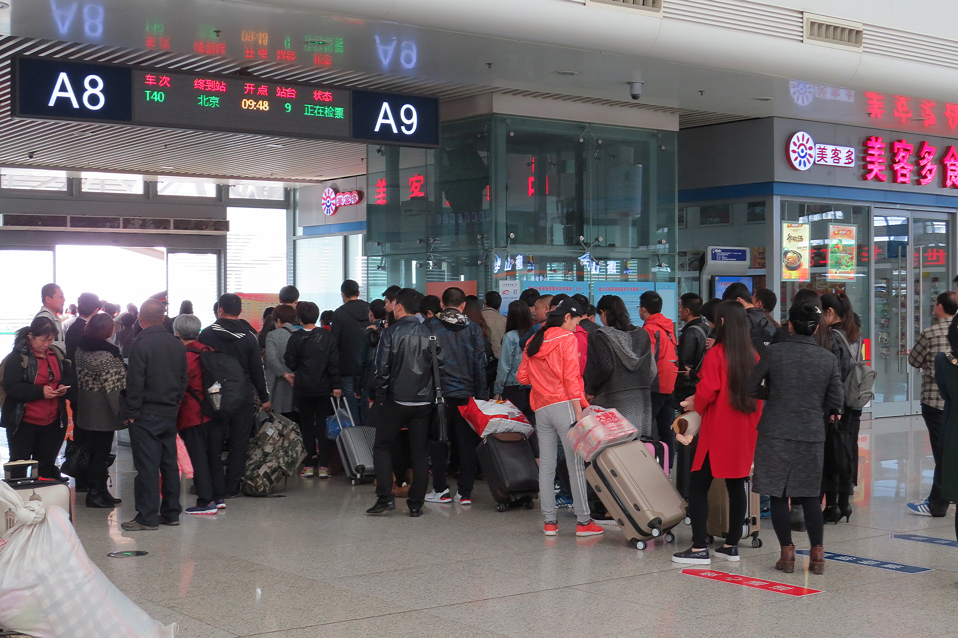 T40 ready to board, and our K78? In 20 minutes!